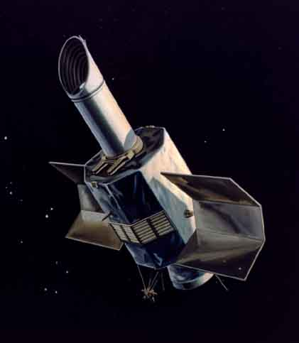 International Ultraviolet Explorer